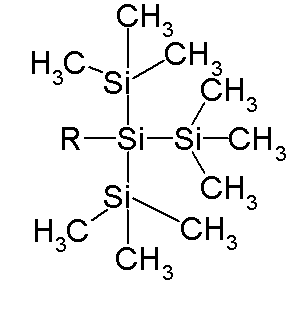 Tri(trimethylsilyl)silyl group